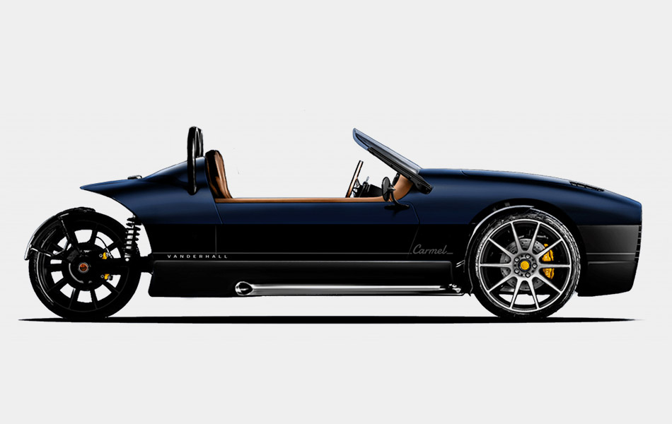 Vanderhall Carmel Three-Wheeled Autocycle With Doors